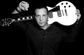 Promotional headshot of Justin Utley, submitted by the copyright owner of the photograph, Justin Utley.